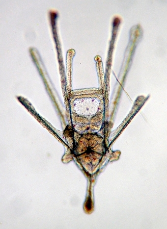 Early pluteus larva of the heart urchin Echinocardium cordatum, width ca 600 Âµm